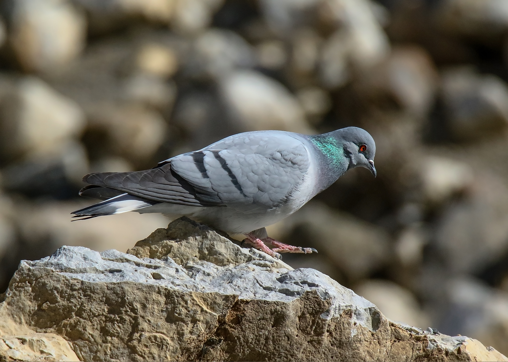 Hill Pigeon (Columba rupestris) captured at Khyber, Gojal, Gilgit-Baltistan, Pakistan with Canon EOS 7D Mark II